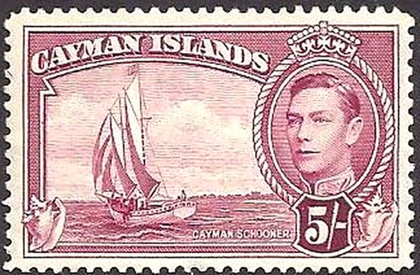 Cayman Islands postage stamp, 1938 issue, KGVI, 5s